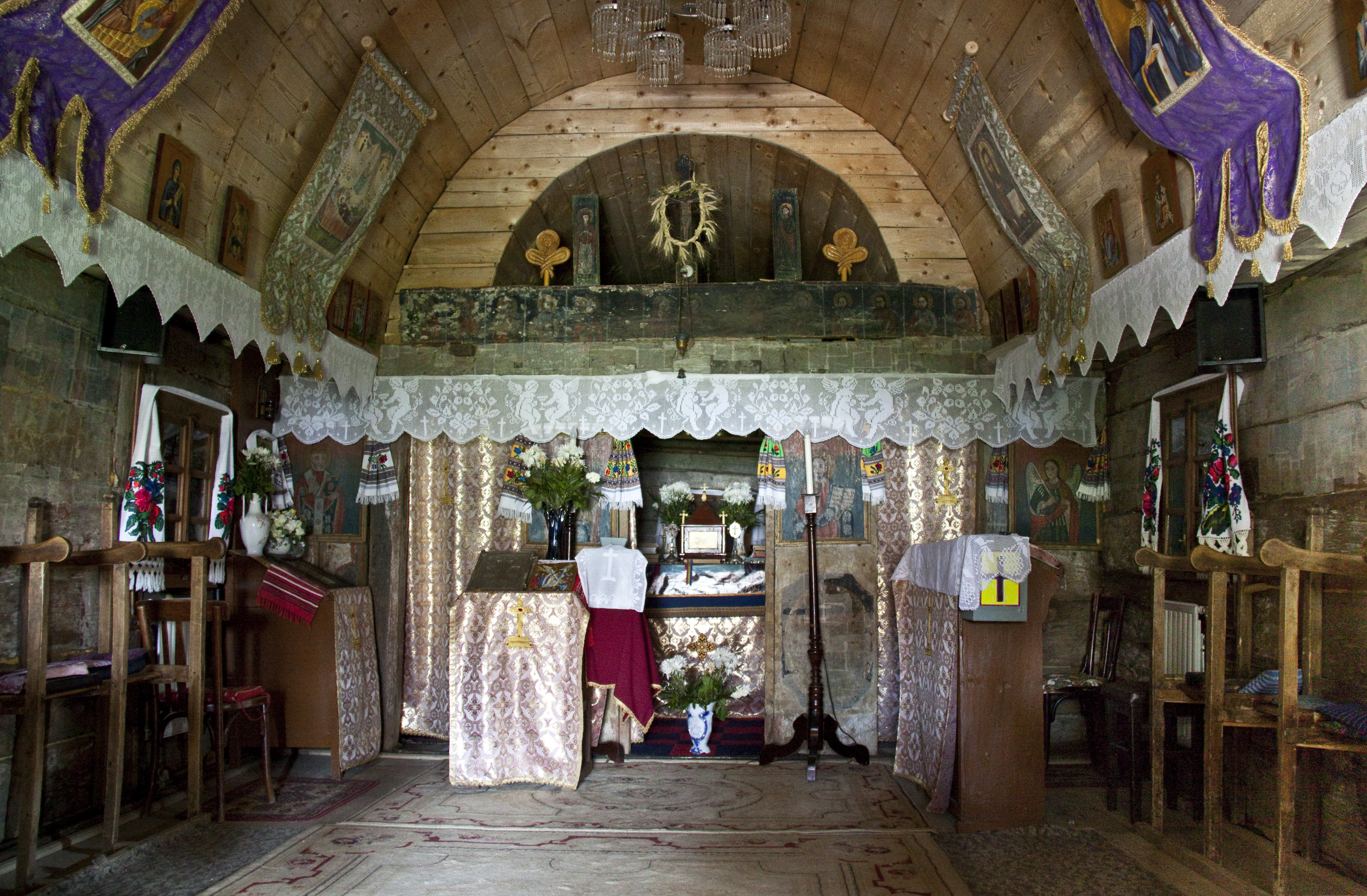 Topla, Timiş county, Romania. The wooden church transferred in the Banat Village Museum from Timişoara, the nave.